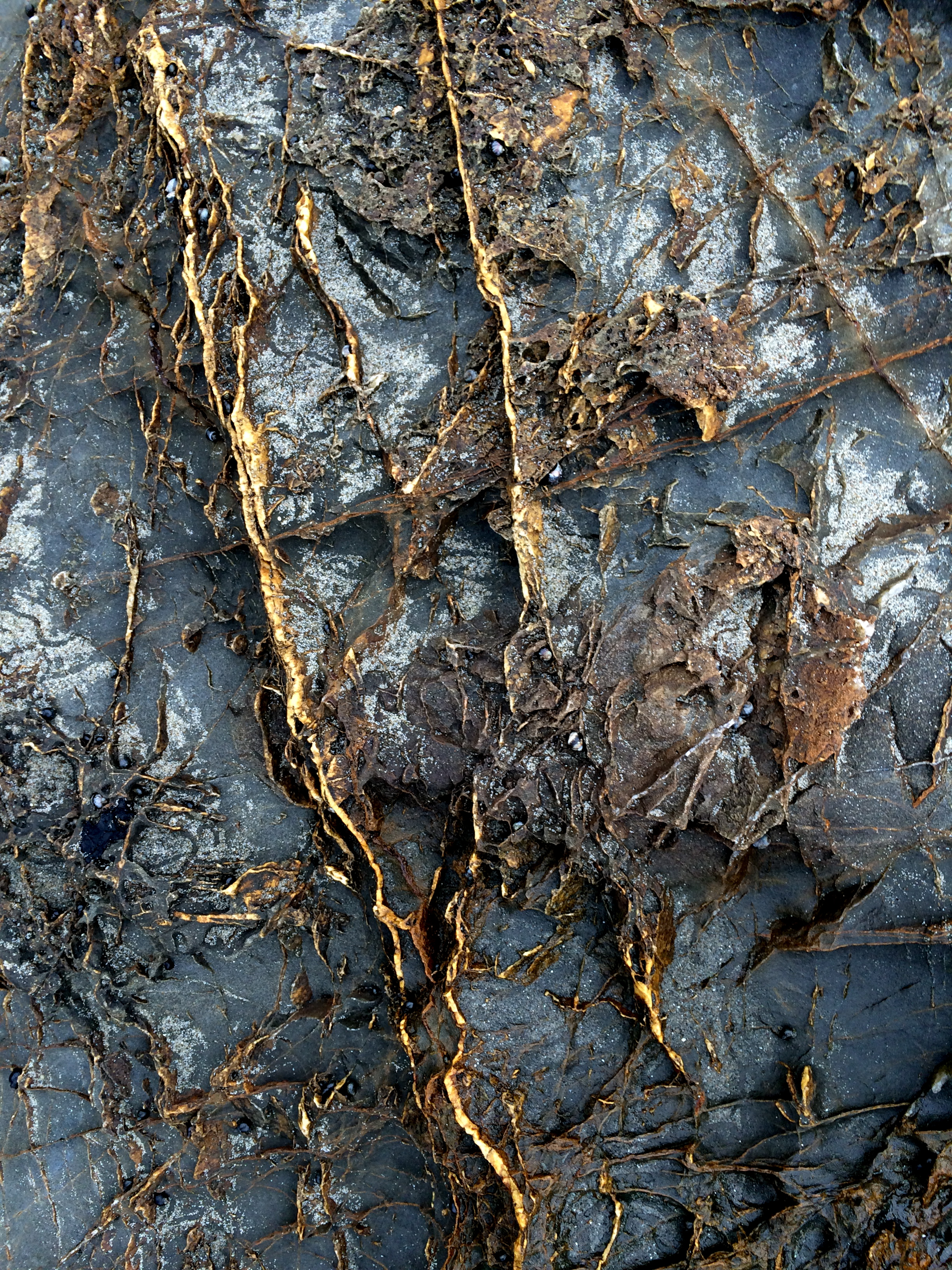 An extraordinary exposure of silica (hot-spring) stockwork quartz veining at the bluffs just north of the kayak-launch, San Geronimo Creek, Estero Bluffs state park.